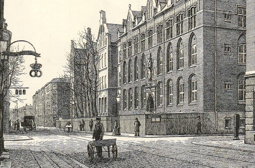 St. Joseph's Hospital in the Nørrebro district of Copenhagen, Denmark